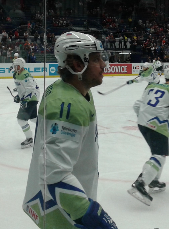 Anže Kopitar before WC match Slovenia - Norway